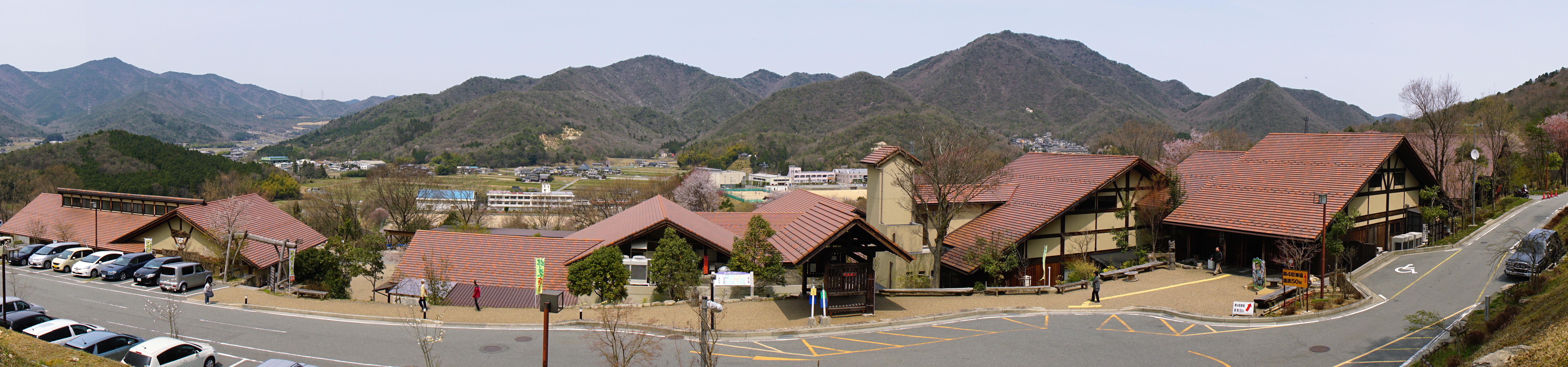 Konda Yakushi Onsen Nukumori-no-sato in Sasayama, Hyogo prefecture, Japan.